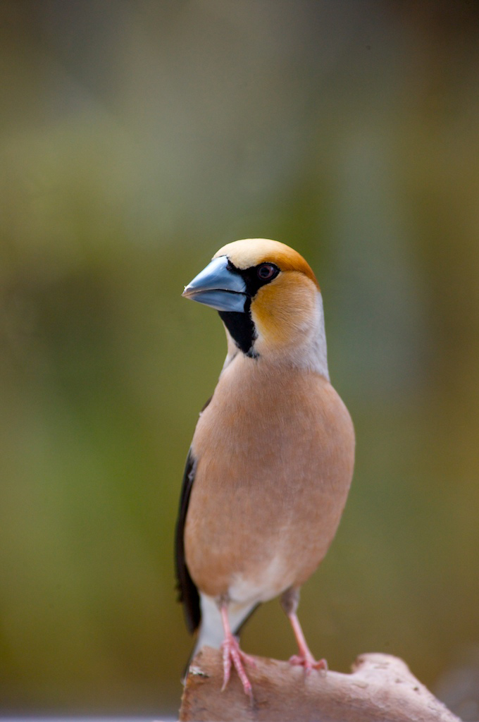 Coccothraustes coccothraustes